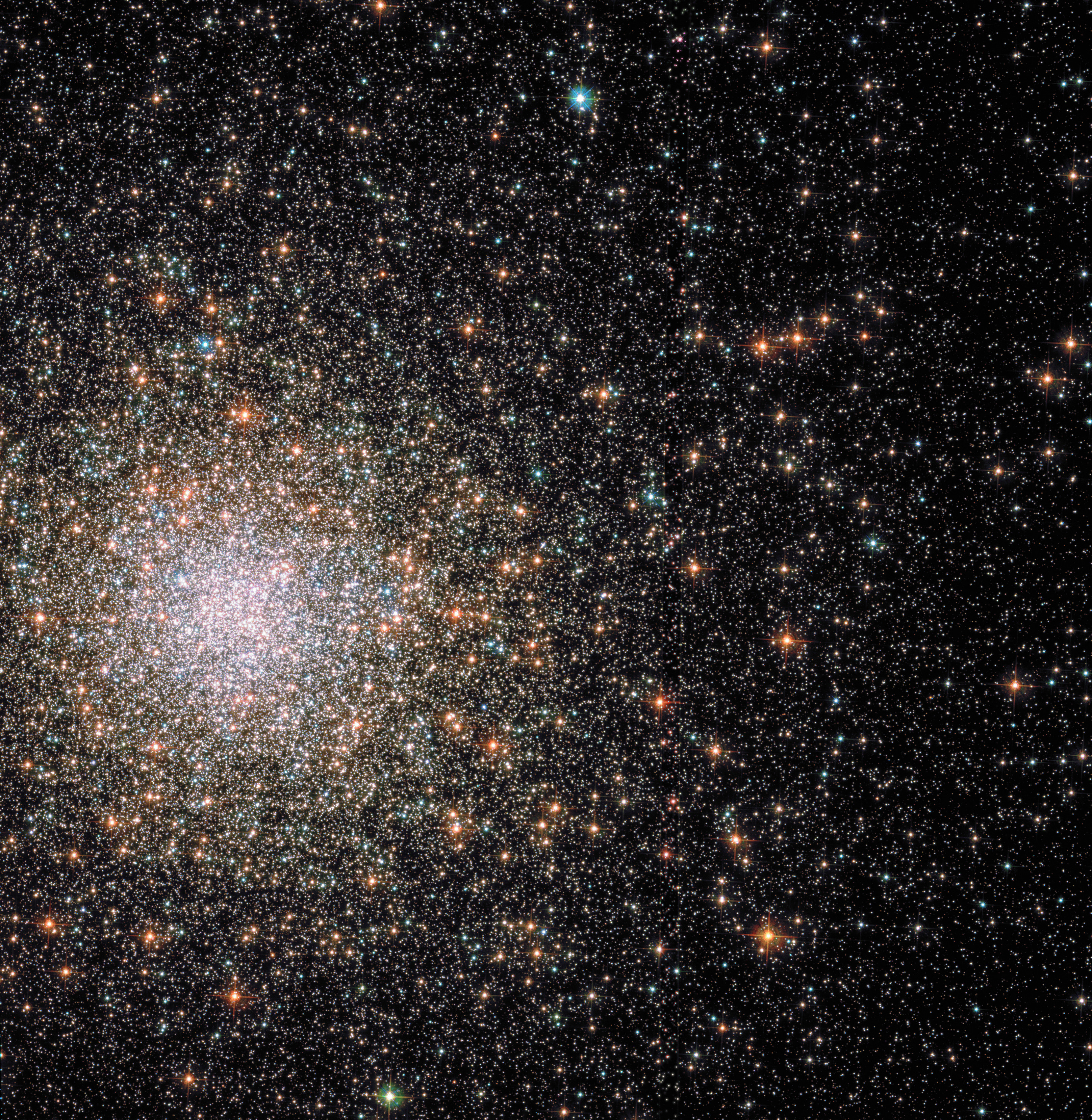 Comet or cluster? Most globular clusters are almost perfectly spherical collections of stars — but Messier 62 breaks the mould. The 12-billion-year-old cluster is distorted, and stretches out on one side to form a comet-like shape with a bright head and extended tail. As one of the closest globular clusters to the centre of our galaxy, Messier 62 is likely affected by strong tidal forces that displace many of its stars, resulting in this unusual shape. When globular clusters form, they tend to be somewhat denser towards the centre. The more massive the cluster, the denser the centre is likely to be. With a mass with almost a million times that of the Sun, Messier 62 is one of the densest of them all. With so many stars at the centre, interactions and mergers occur regularly. Huge stars form and run out of fuel quickly, exploding violently and their remains collapse to form white dwarfs, neutron stars and even black holes! For many years, it was believed that any black holes that form in a globular cluster would quickly be kicked out due to the violent interactions taking place there. However, in 2013, a black hole was discovered in Messier 62 — the first ever to be found in a Milky Way globular cluster, giving astronomers a whole new hunting ground for these mysterious objects. This view comprises ultraviolet and visible light gathered by the NASA/ESA Hubble Space Telescope’s Advanced Camera for Surveys. Credit: ESA/Hubble & NASA, S. Anderson et al. Coordinates Position (RA): 17 1 9.44 Position (Dec): -30° 6' 37.91" Field of view: 2.70 x 2.77 arcminutes Orientation: North is 2.9° right of vertical Colours & filters Band Wavelength Telescope Optical C 390 nm Hubble Space Telescope WFC3 Optical B 435 nm Hubble Space Telescope ACS Optical NII 658 nm Hubble Space Telescope ACS Optical r 625 nm Hubble Space Telescope ACS .